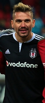 Ersan Gülüm